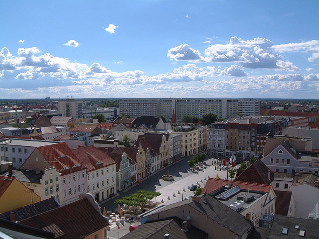 View in Cottbus "altmarkt"